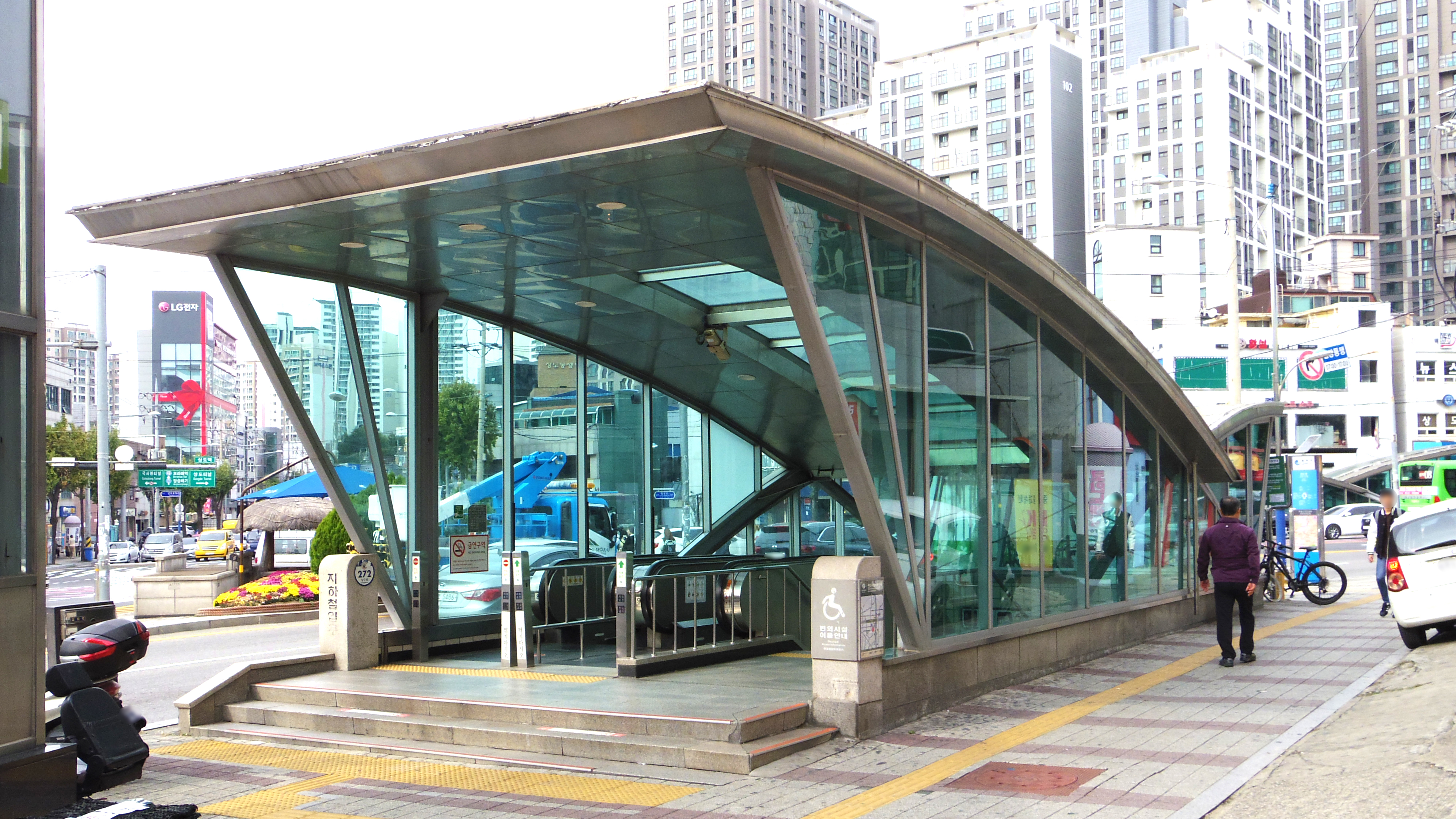 The no.5 entrance to Sangdo Station on the Seoul Metro Line 7 in Dongjak-gu, Seoul, Republic of Korea(South Korea)